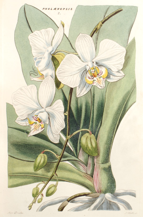 Phalaenopsis amabilis